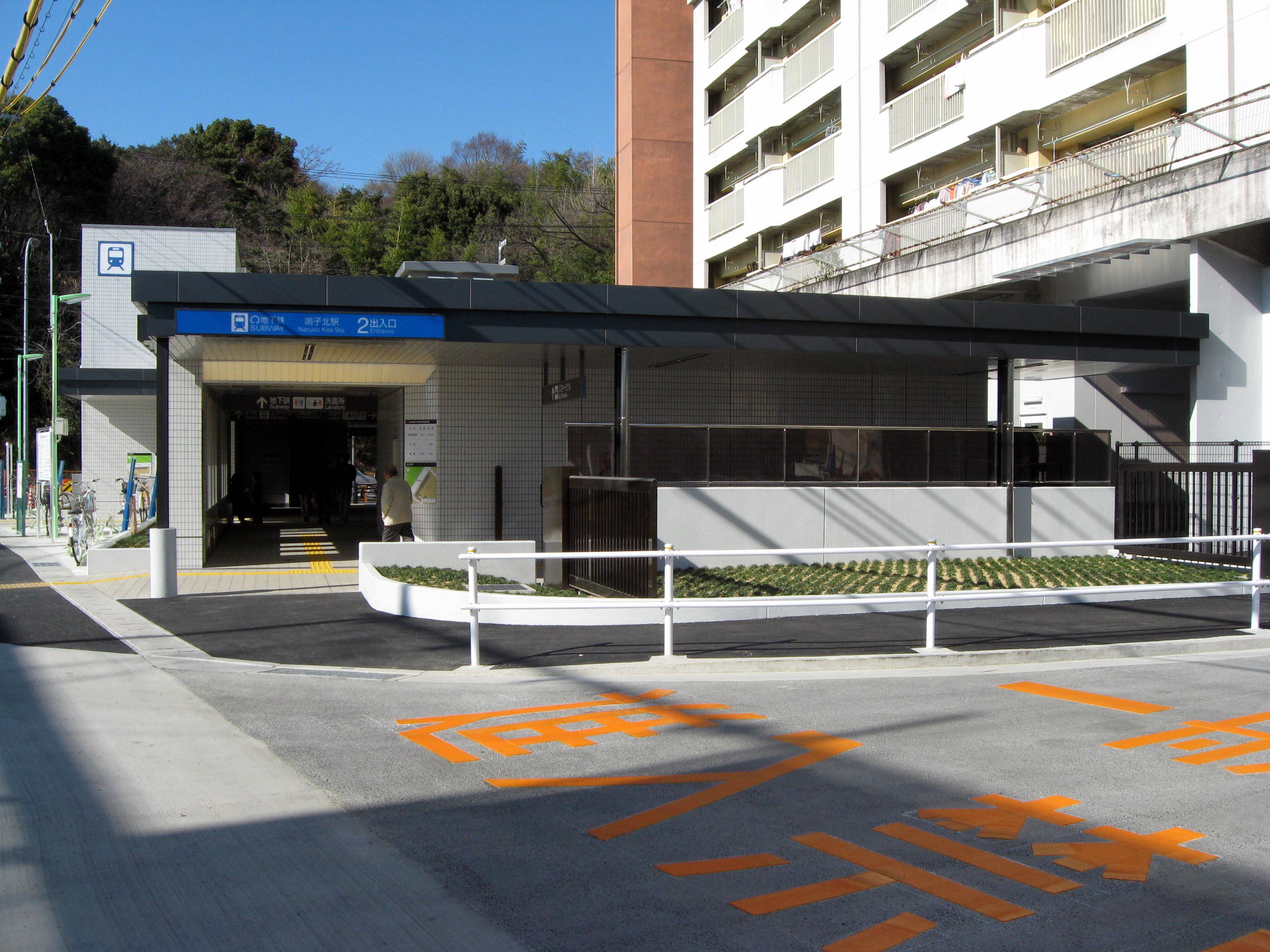 Exit 2 of Naruko Kita Station on the Sakura-dōri Line of Nagoya Municipal Subway in Nagoya, Aichi, Japan